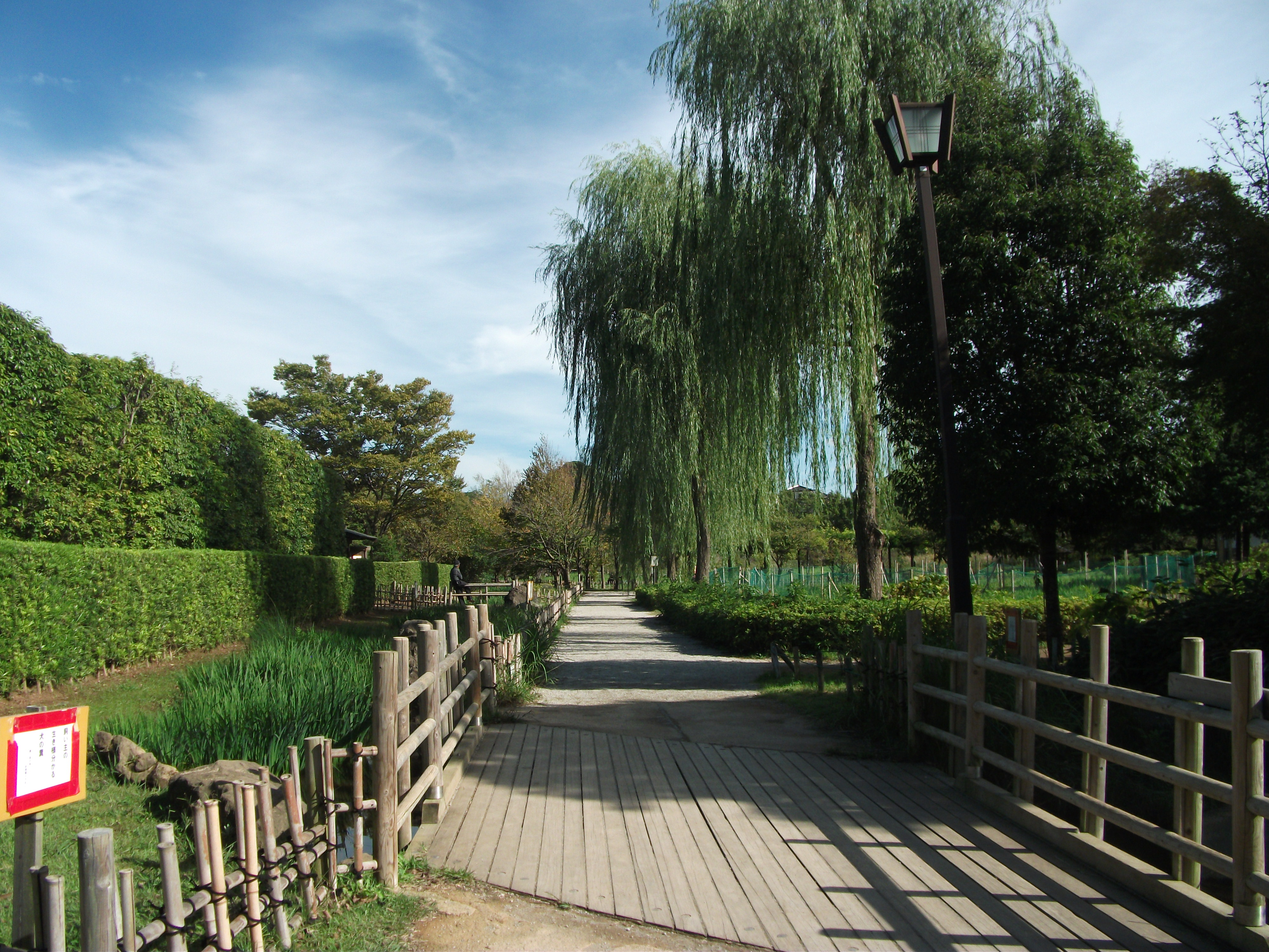 Mimomi Hongo Park in Narashino City, Chiba Prefecture, Japan